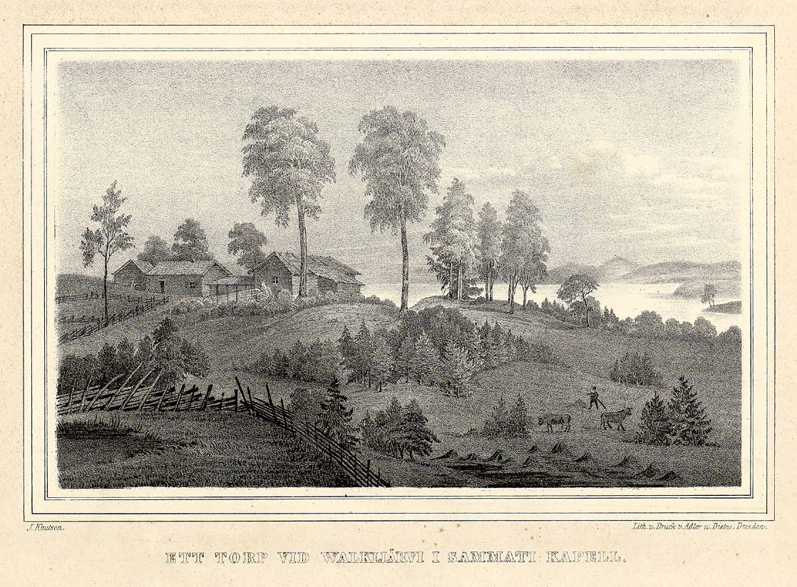 A croft at Valkijärvi, Sammatti, Finland. Zachris Topelius uses this picture in his book Boken om vårt land to depict Paikkari Croft, the birthplace of Finnish scholar Elias Lönnrot